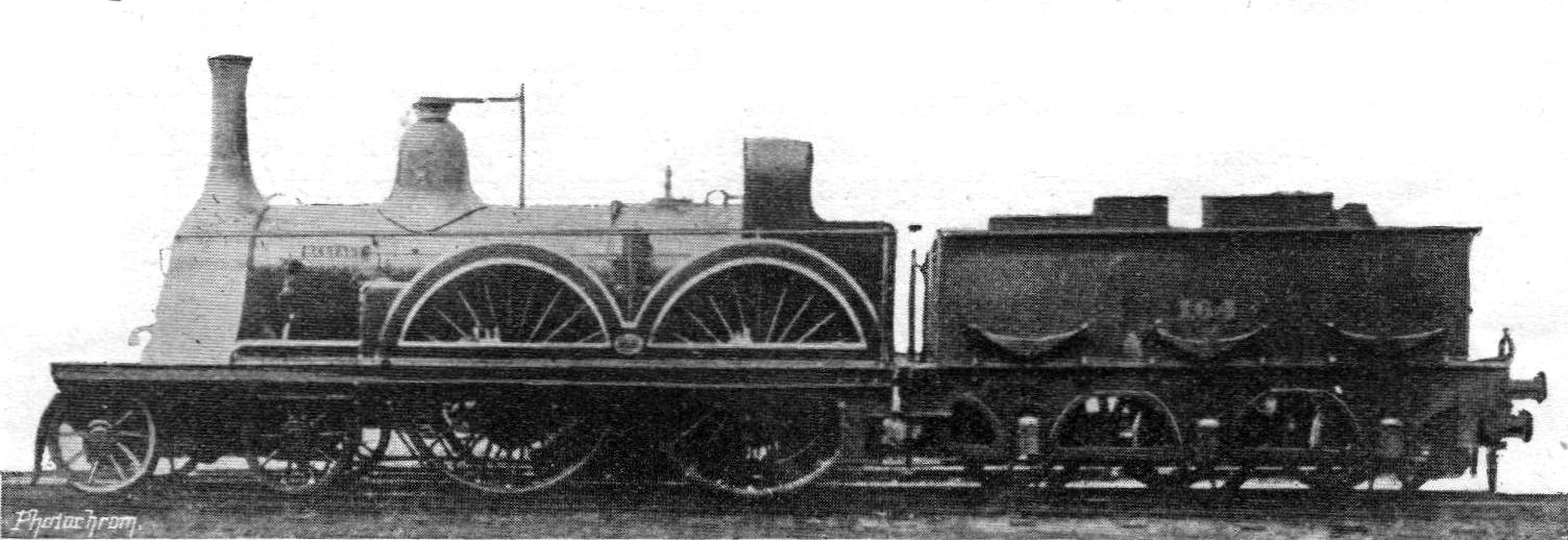 NER locomotive 164 Belfast (Railway Magazine, 100, October 1905).jpg